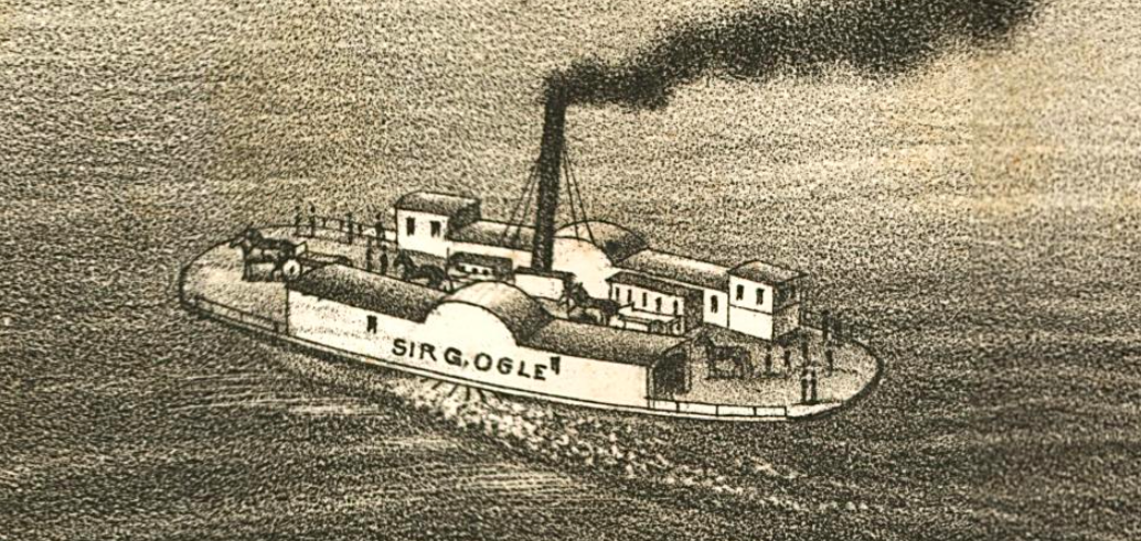 Sir Charles Ogle, Halifax, Nova Scotia, inset of Panoramic View of the City of Halifax, Nova Scotia, 1879